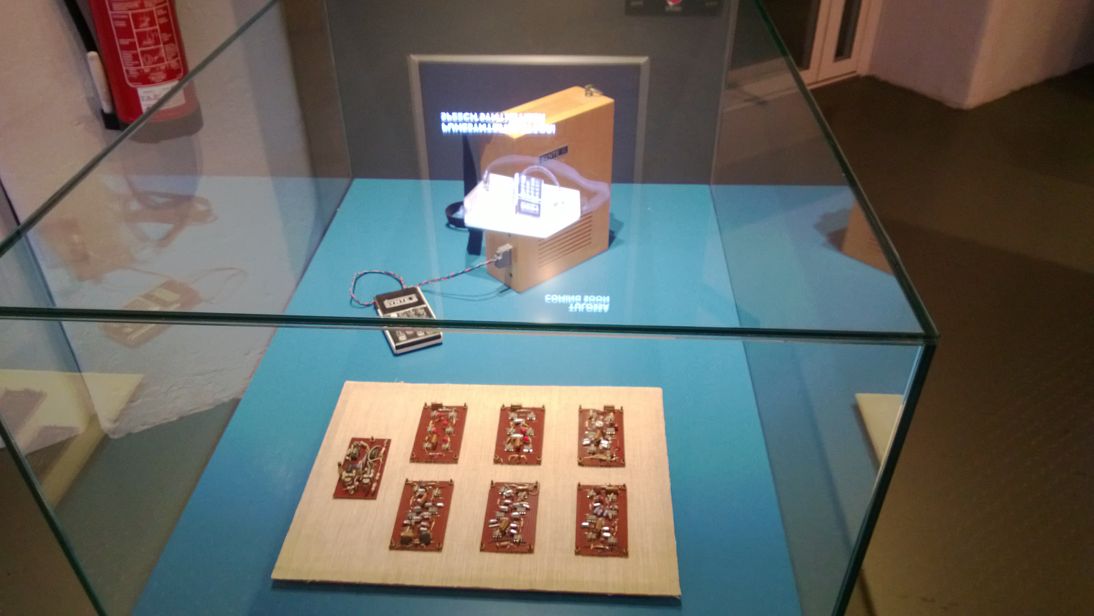 Synte 2 speech synthesizer at the Invention Exhibition at the Museum Center Vapriikki in Tampere, Finland, picture 3 (6.20.2012–)